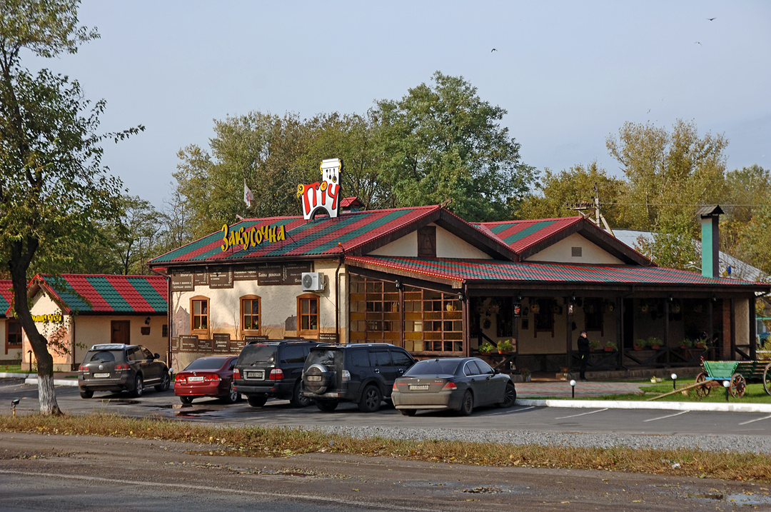 Cafe by the road M-18 in the village Nove, Melitopol raion, Zaporizhia Oblast, Ukraine